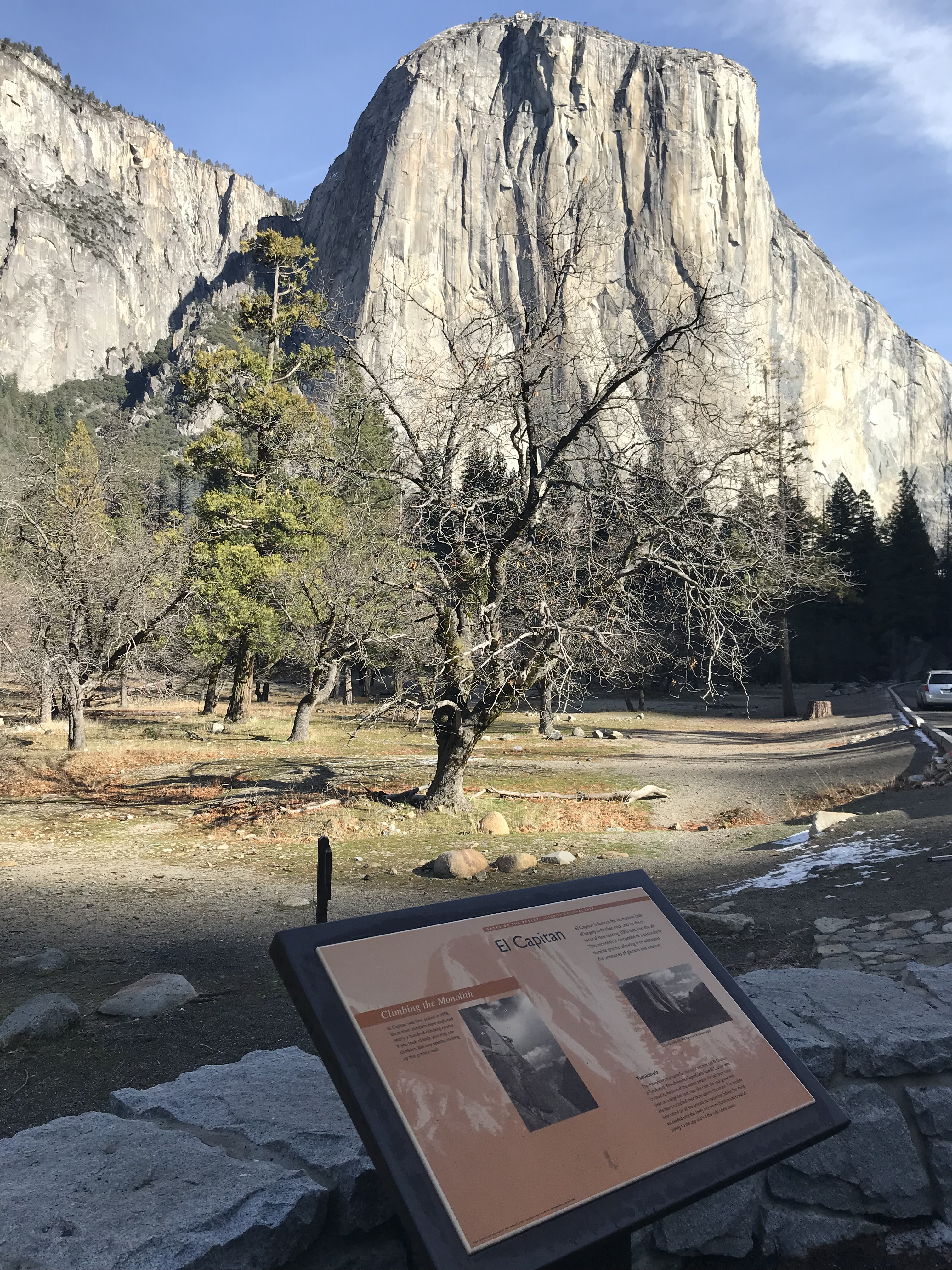 El Capitan (Spanish for The Captain, The Chief) is a vertical rock formation in Yosemite National Park, CA, United States.